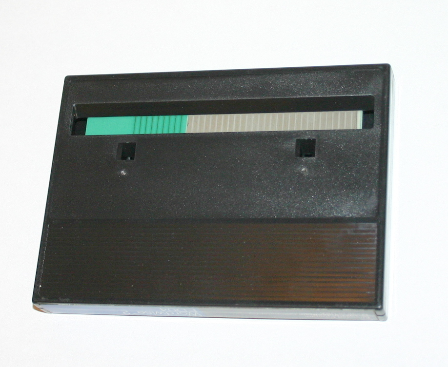 Bottom/Reverse side of a VideoBrain ROM software cartridge showing contacts that allowed it to interface with the VideoBrain computer. The ROM chip was on a small circuit board inside the cartridge.